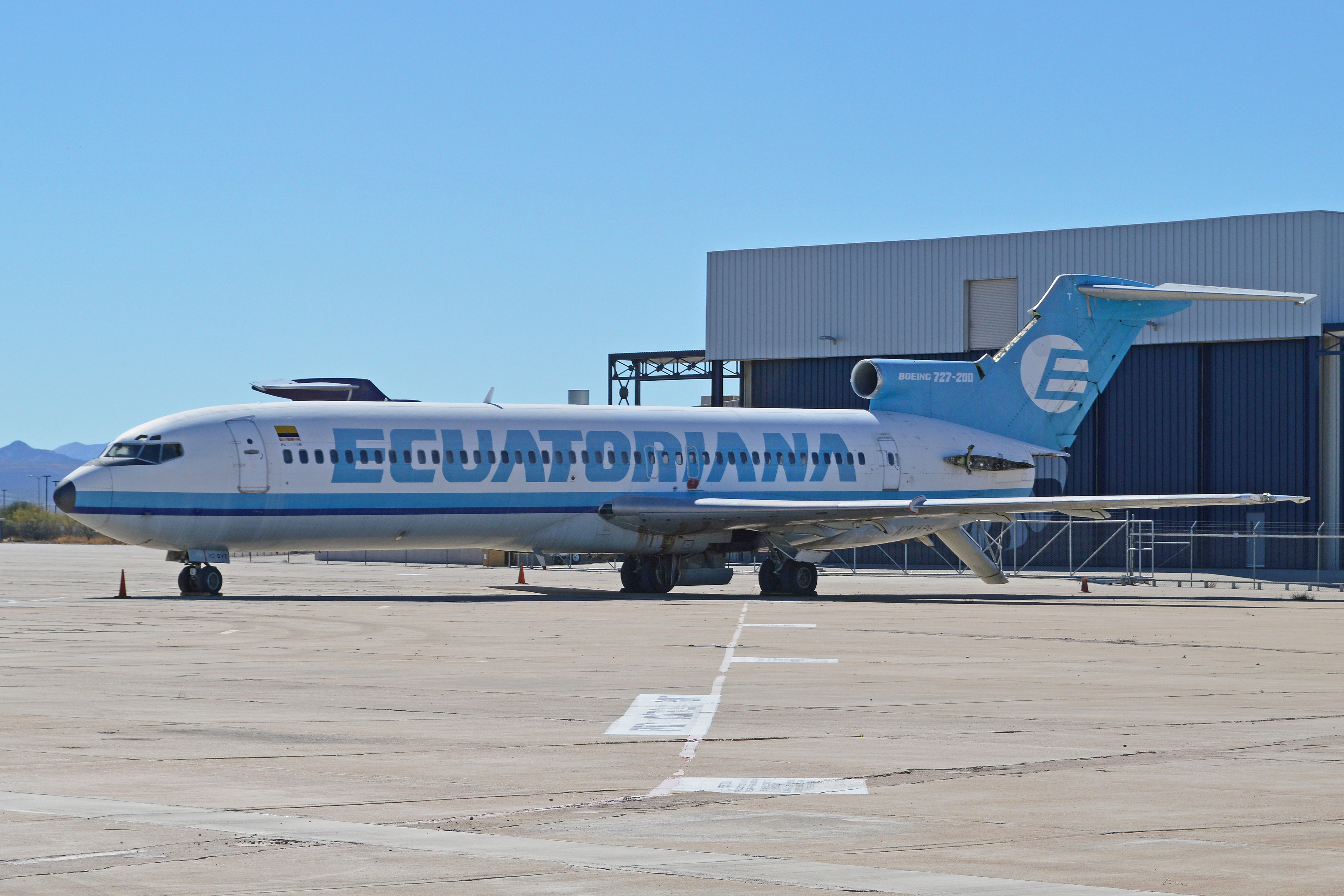 c/n 22603, l/n 1732. Built 1981 as 'LV-OLN' for Aerolineas Argentinas. It became 'HC-BVT' with Ecuatoriana in 1997. Retired in 2001, it remains parked up, still in Ecuatoriana colours, at Tucson International Airport, Tucson, Arizona. USA. 09-2-2014